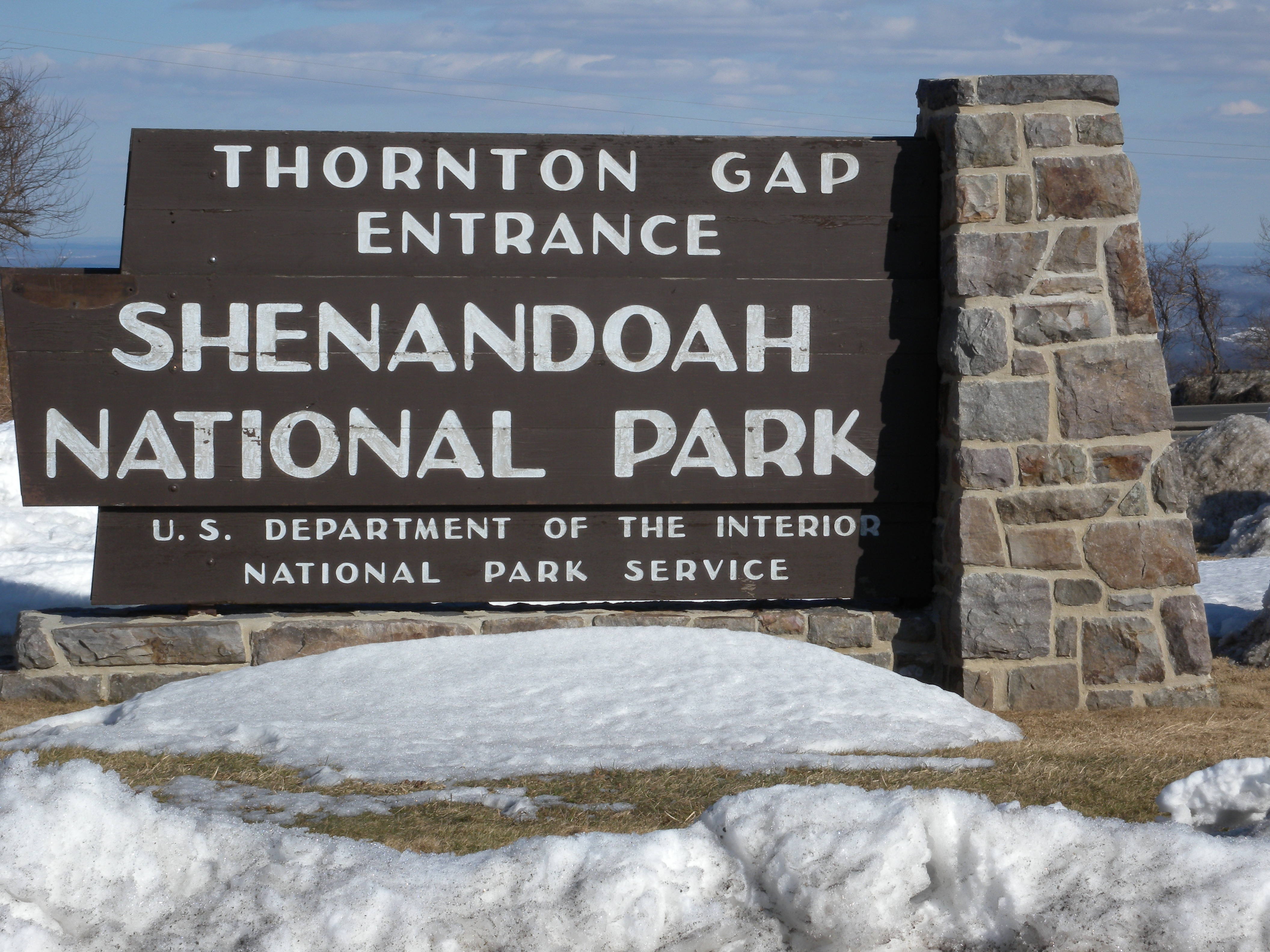 Sign at Thornton Gap in the Shenandoah National Park, Virginia.